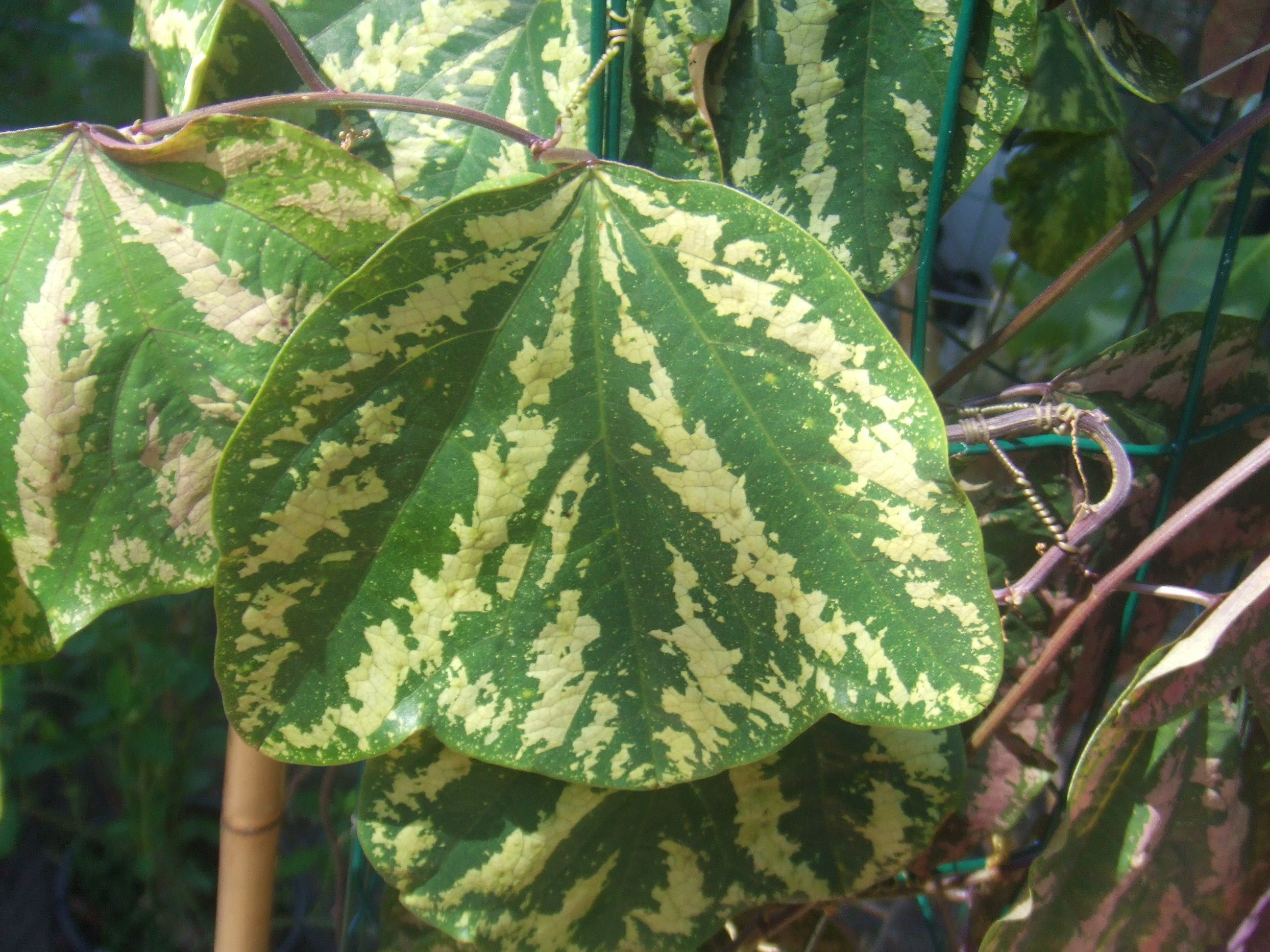 Passiflora organensis, picture taken at the Passiflorahoeve in Harskamp, The Netherlands